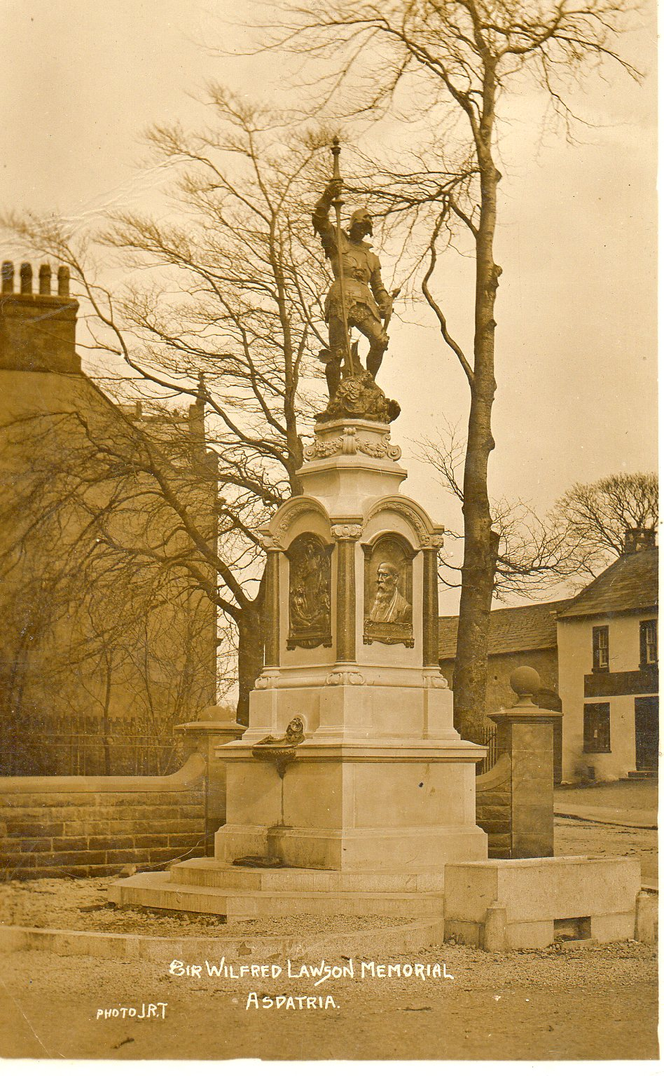 Copy of Photo Circa 1909